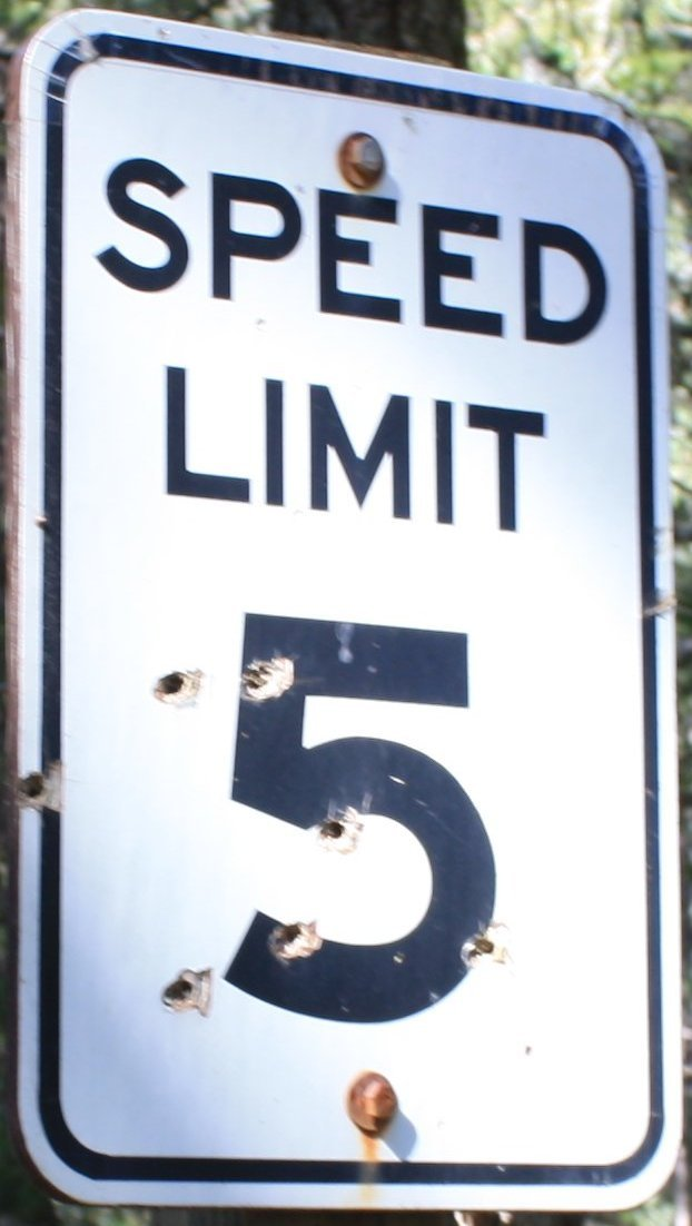 Speed Limit 5, Crabtree Hot Springs, Mendocino National Forest, Lake County, California